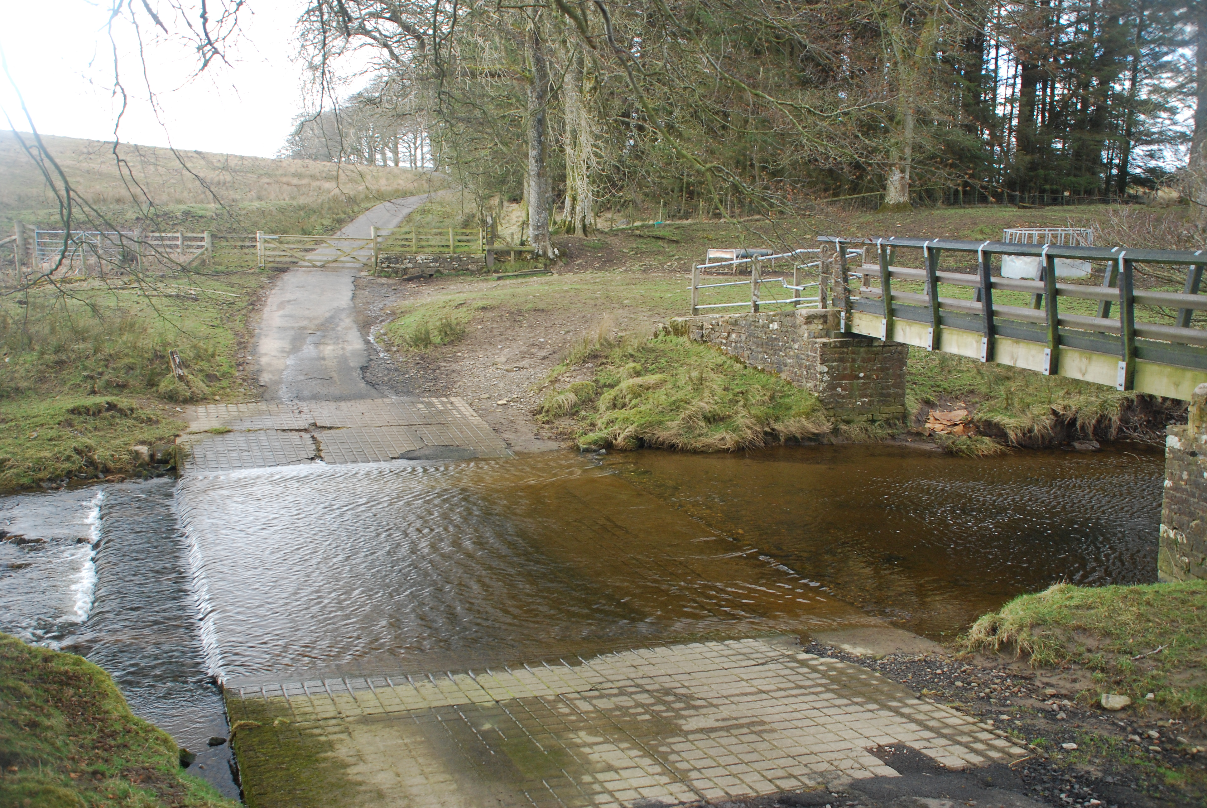 Rawney Ford. This ford on the Bothrigg Burn is found at Rawney.